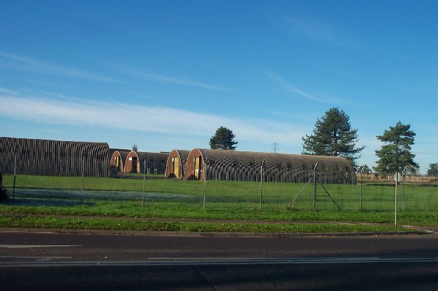 Nissen Huts at Norton Fitzwarren. These huts were part of the old army base at Norton Fitzwarren. The photograph is taken on the northeast corner of the Cross Keys roundabout on the A358.